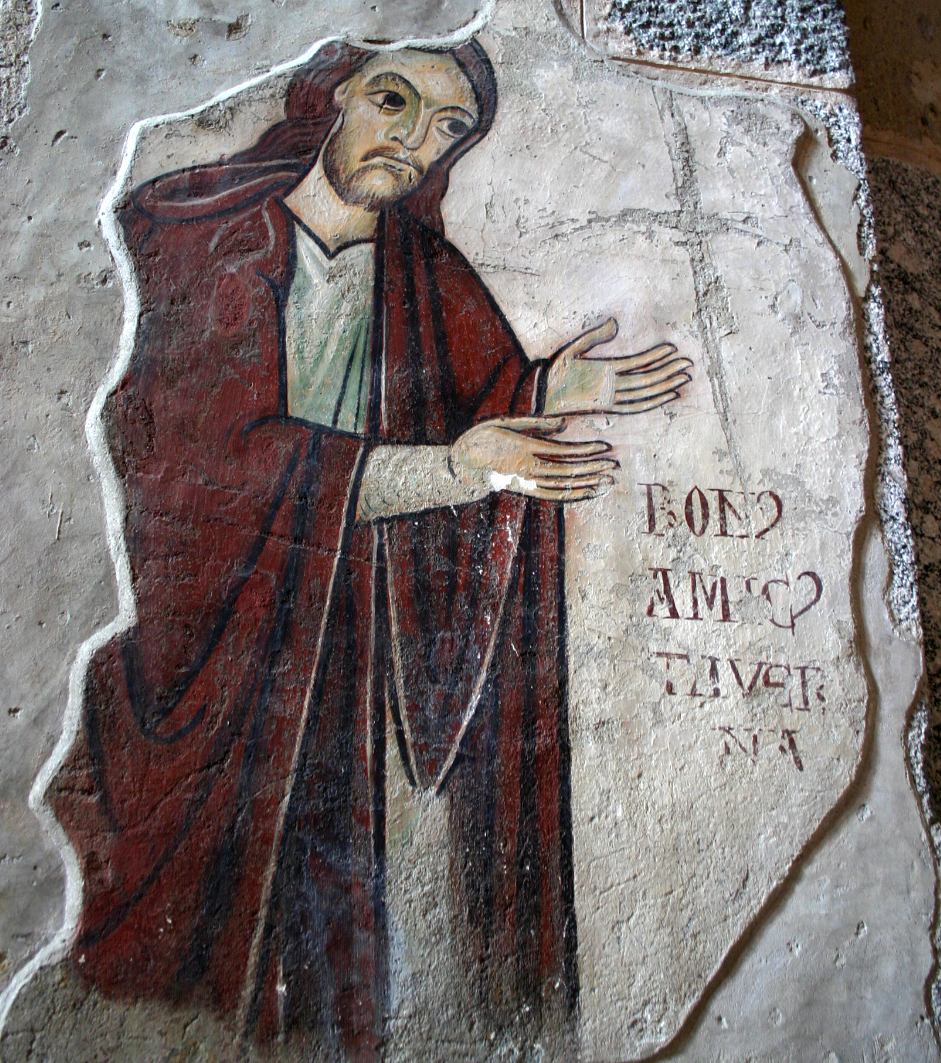 Main nave of Sant'Ambrogio basilica in Milan, Italy. Bonamico Taverna, who paid for the frescos on a pillar (his name is in the latin inscription, "BONUS AMICUS TAVERNA", at his side) in a 13th century romanesque fresco. Picture by Giovanni Dall'Orto, April 25 2007.